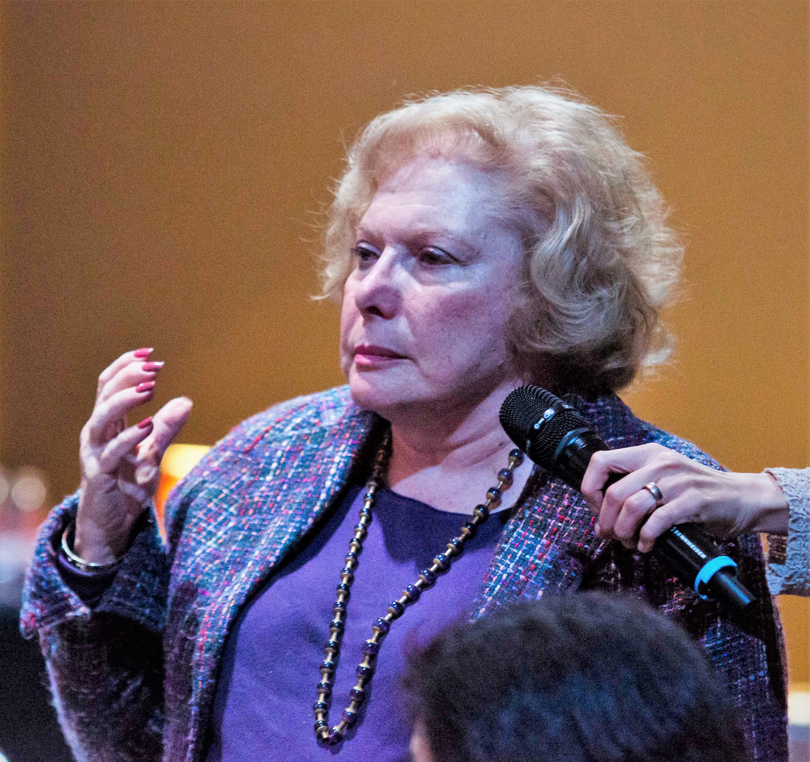 Linda Deutsch voices her own opinions regarding the role of journalists as "conduits of information." (Benjamin Dunn/Neon Tommy)